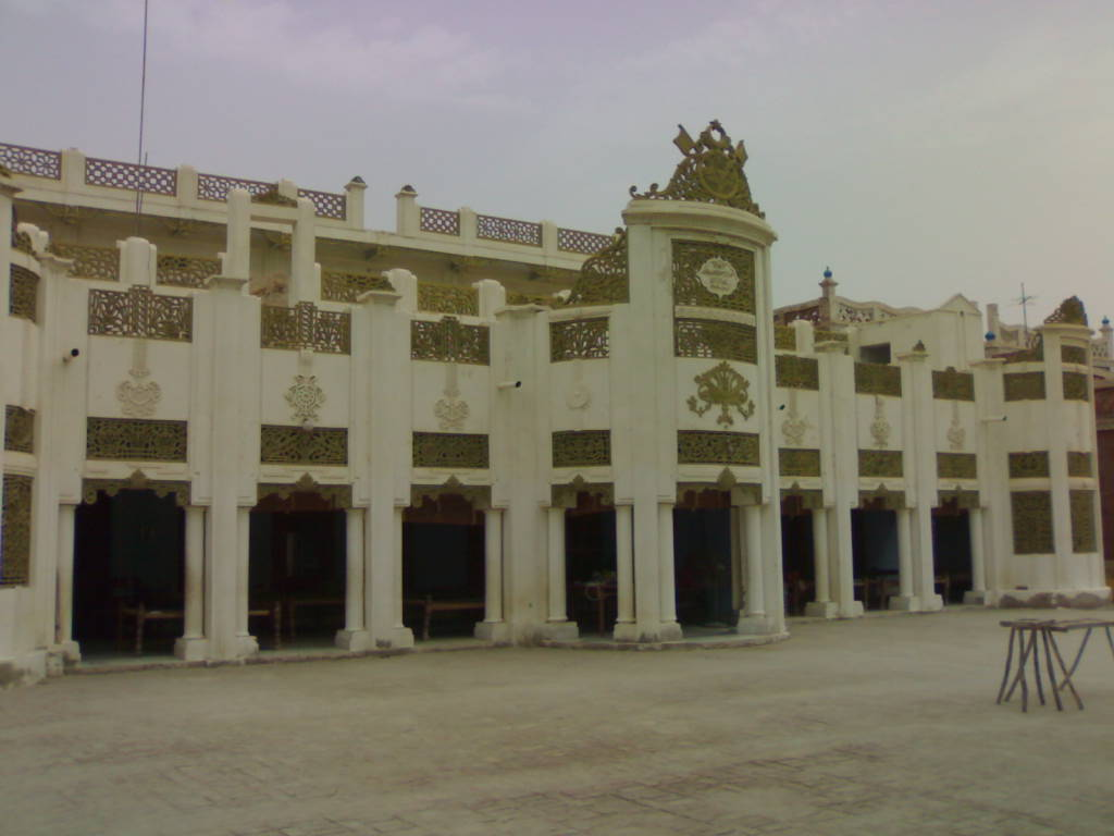 Castle of Mir Raja Ghous Bux Khan Bijarani